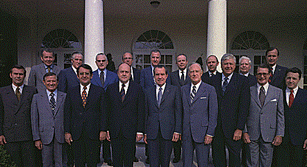 Richard M. Nixon posing with his Cabinet. Pictured: Front Row: Donald Rumsfeld, Sec. of Trasportation John Volpe, Sec. of Commerce Peter Peterson, Sec. of Defense Melvin Laird, Richard M. Nixon, Sec. of State William Rogers, Sec. of the Interior Rogers C.B. Morton, Sec. of HEW Elliot Richardson, Director of OMB Caspar Weinberger Back Row: Robert Finch, Sec. of HUD George Romney, Sec. of Agriculture Earl Butz, Sec. of the Treasury George Shultz, Vice President Spiro Agnew, Attorney General Richard Kleindienst, Sec. of Labor James Hodgson, Ambassador at large David Kennedy, Ambassador to the UN George Bush